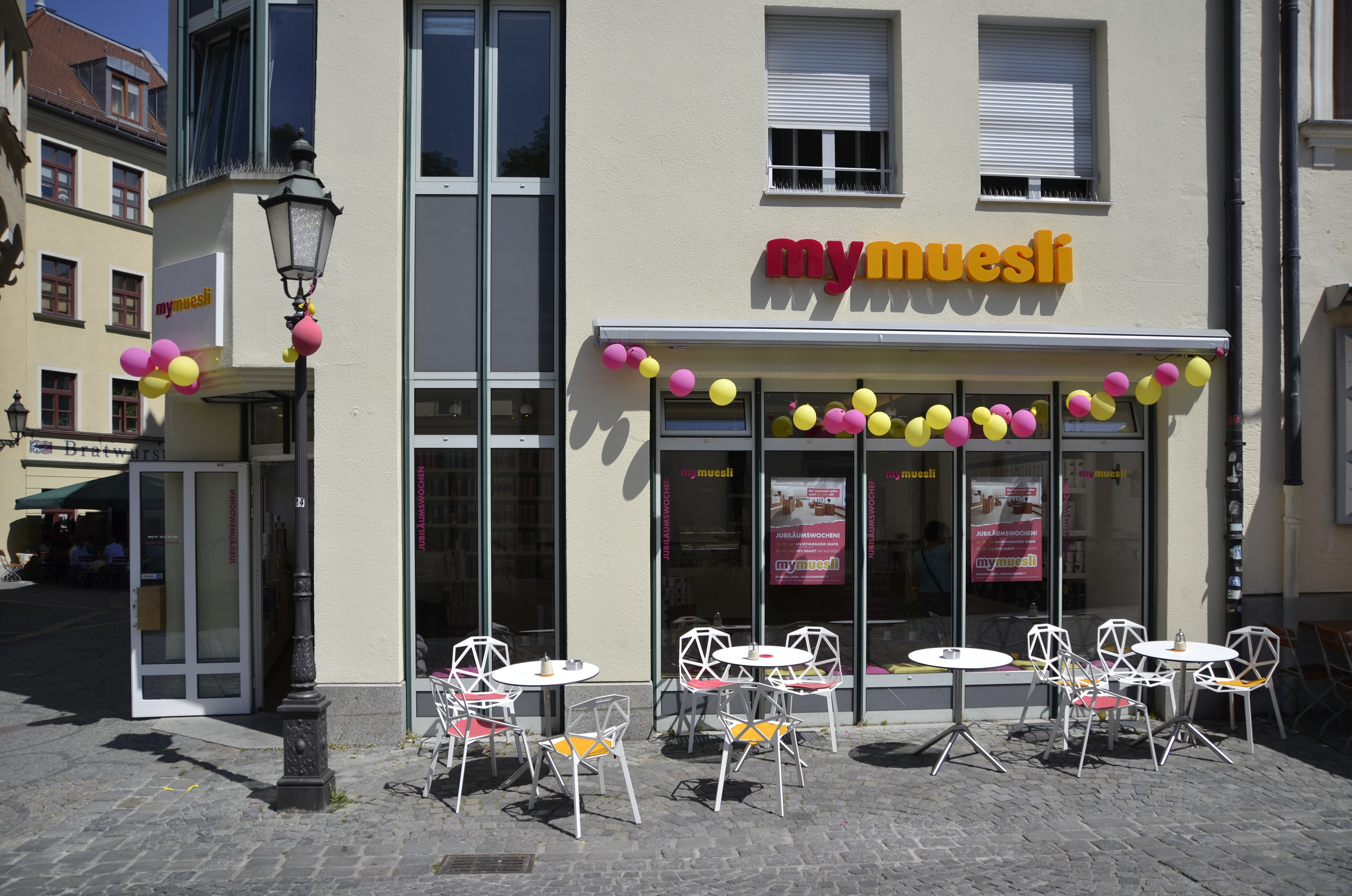 Mymuesli shop in Munich, Viktualienmarkt (Viktualienmarkt 7).